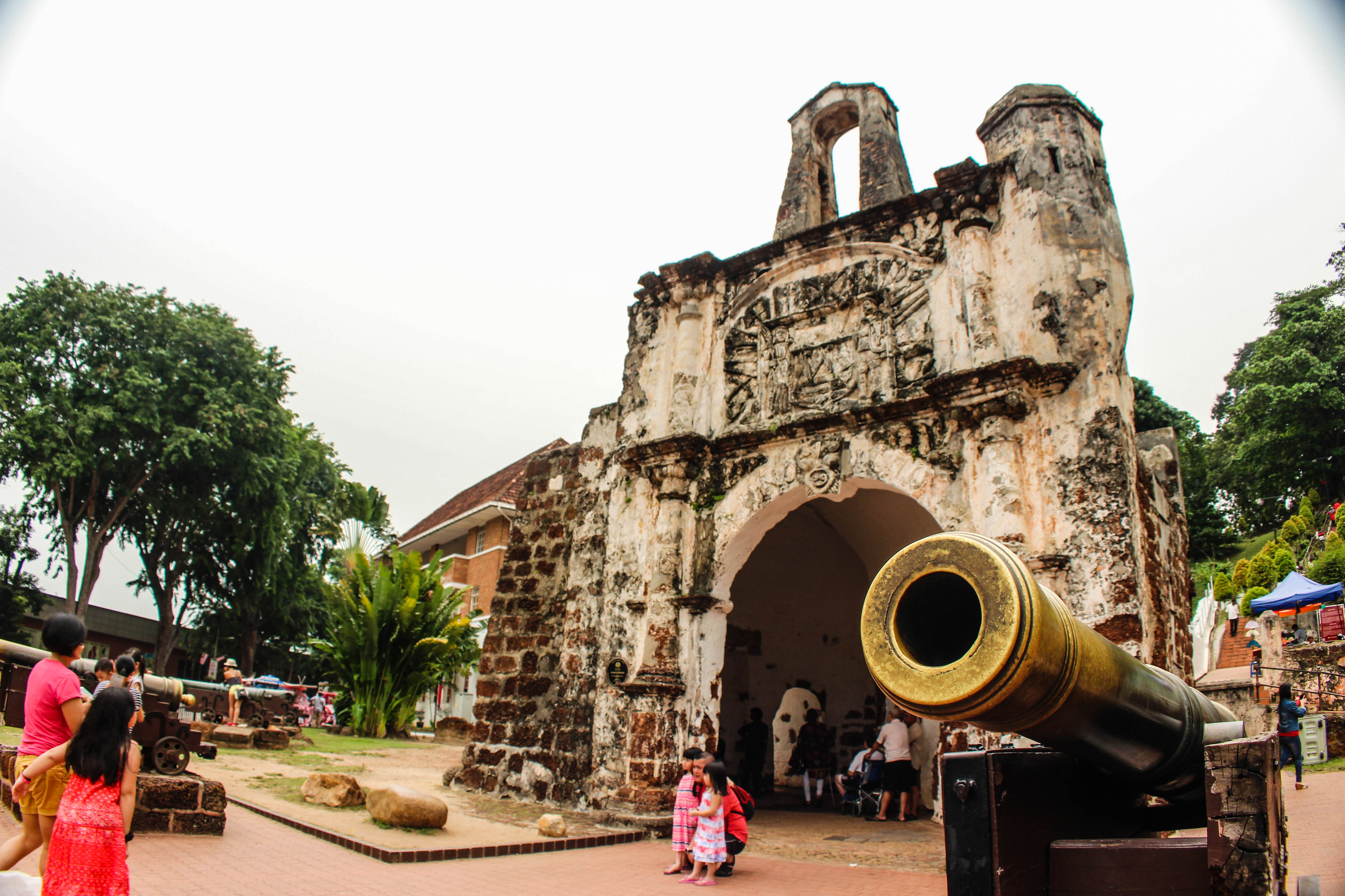 16th Century Portugese fortress located in Malacca, Malaysia